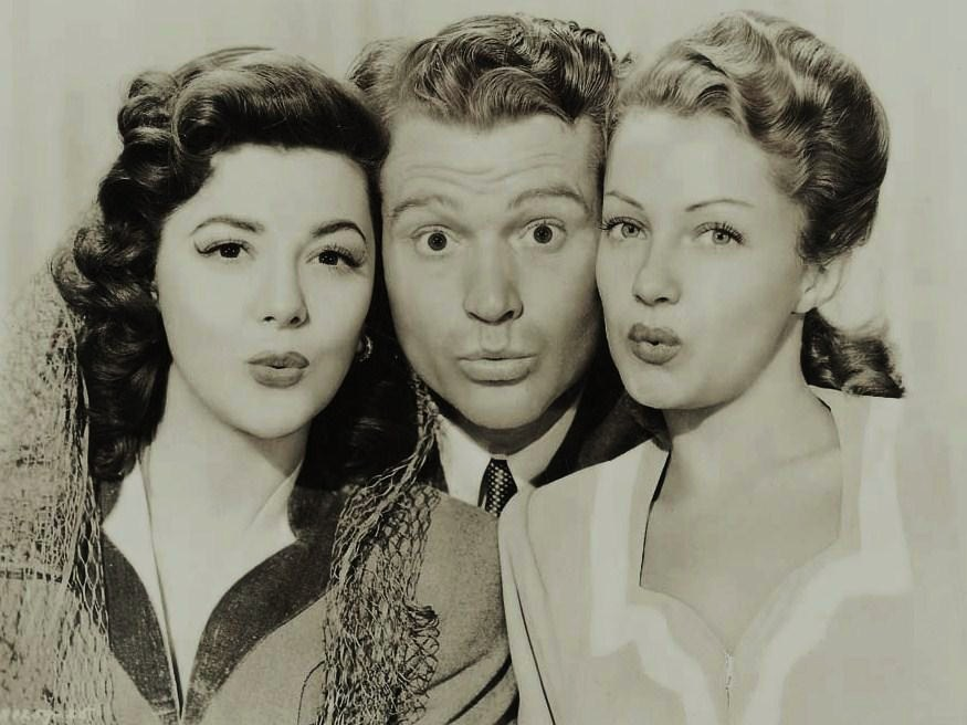 Whistling in Dixie (1942) - publicity still (original image damaged, modified and cropped : see source)